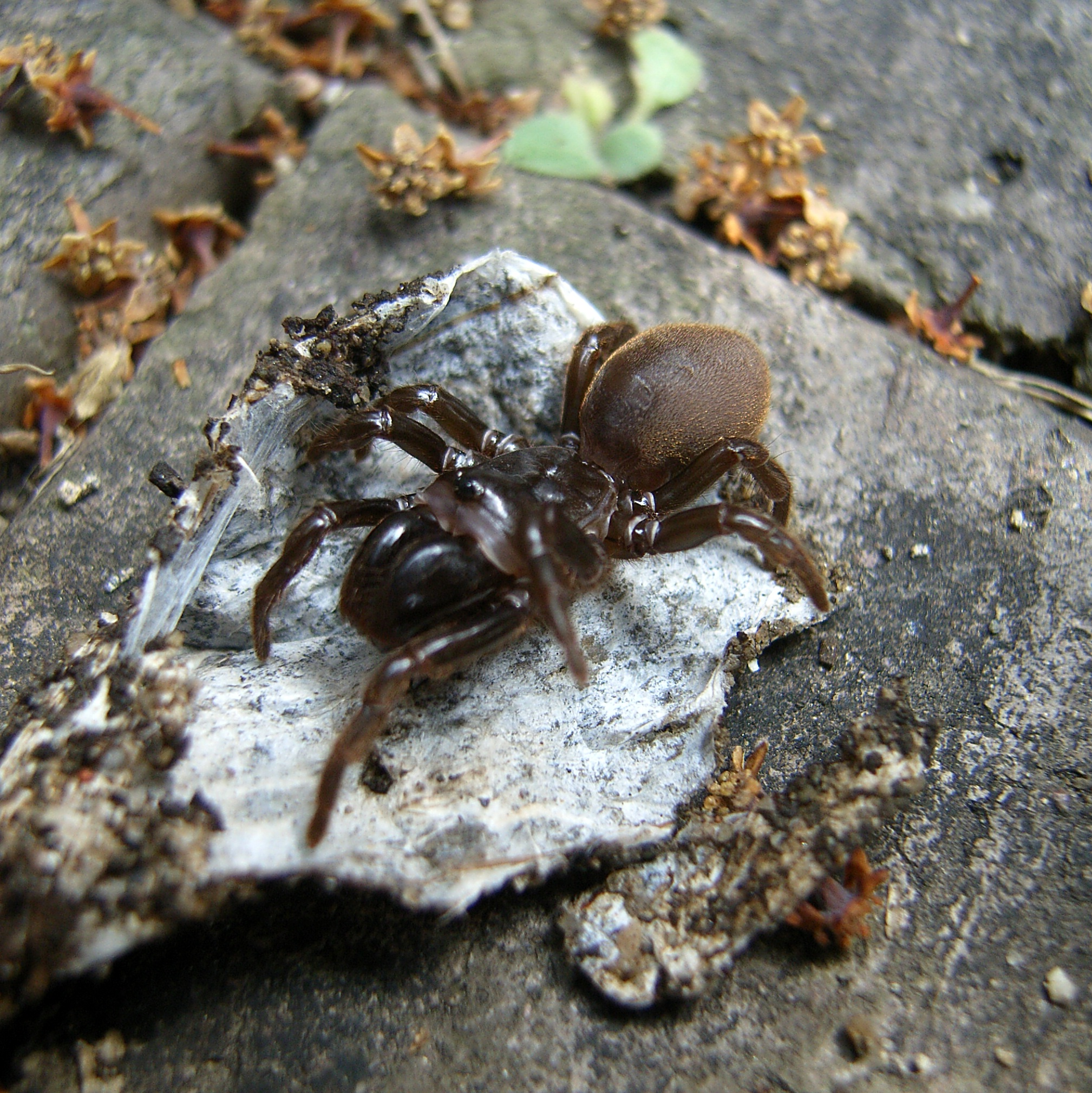 ジグモ Atypus karschi Location 神戸市西区 Copyright OpenCage